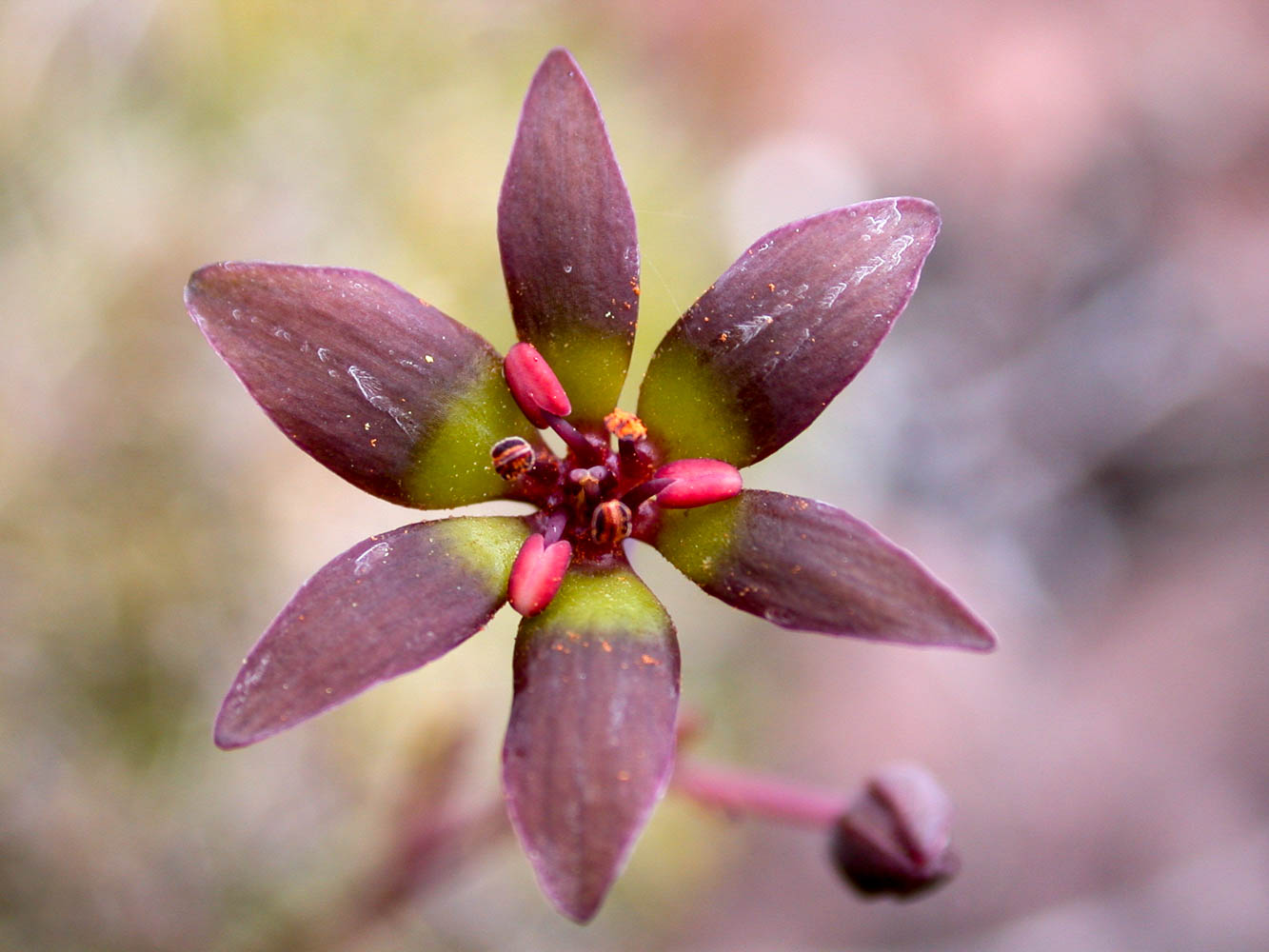 Variation in the flower of Campynema lineare, showing almost entirely purple flowers.